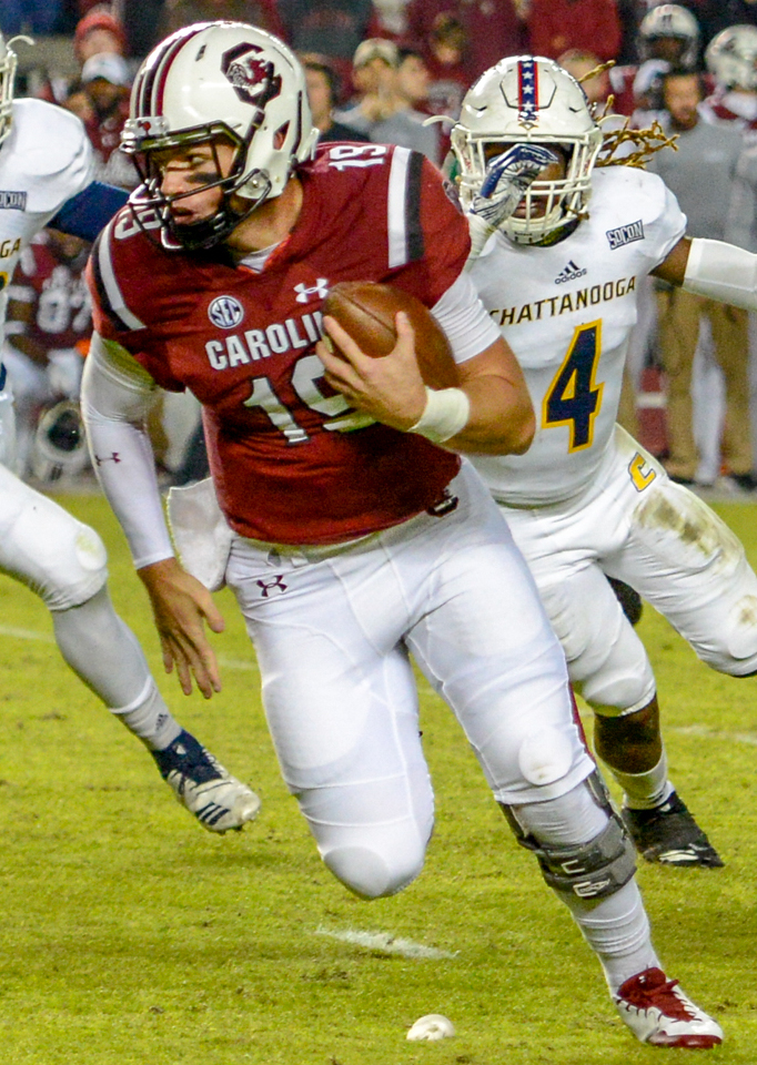 University of South Carolina Military Appreciation Game versus the Chattanooga Mocs at Williams-Brice Stadium, Columbia, S.C., Nov. 17, 2018. (U.S. Army National Guard photo by 2nd. Lt. Jorge Intriago)